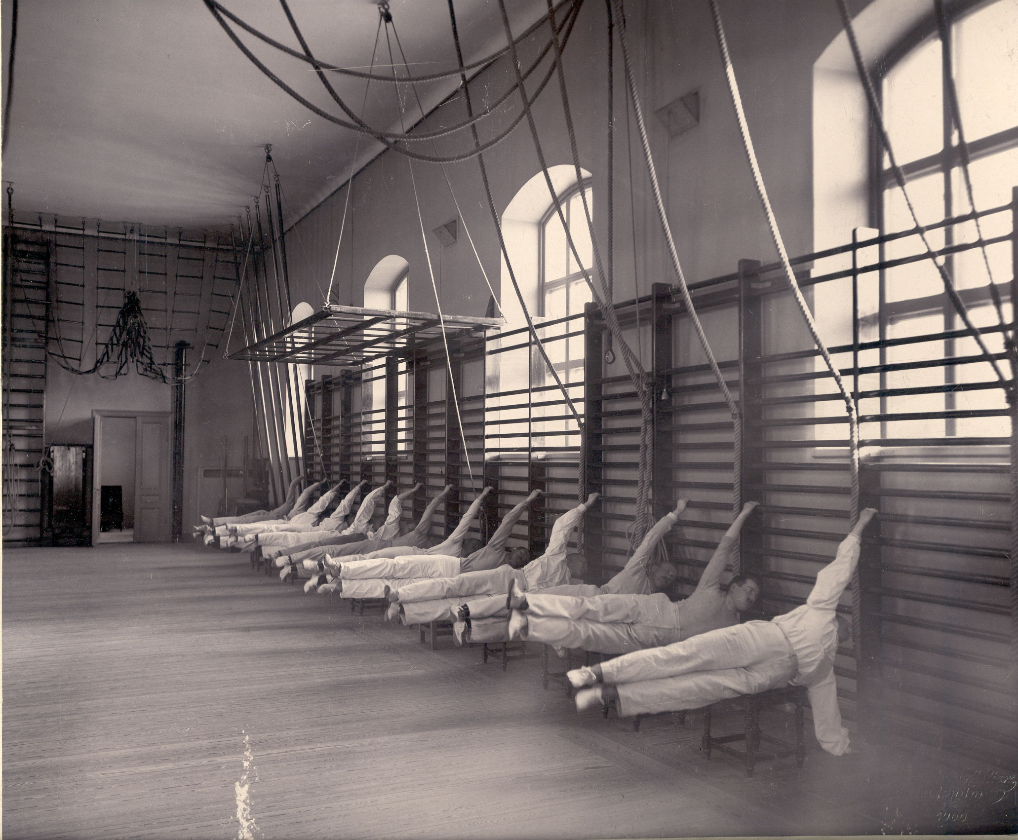 Swedish gymnastics at the Royal Gymnastics Central Institute in Stockholm, about 1900